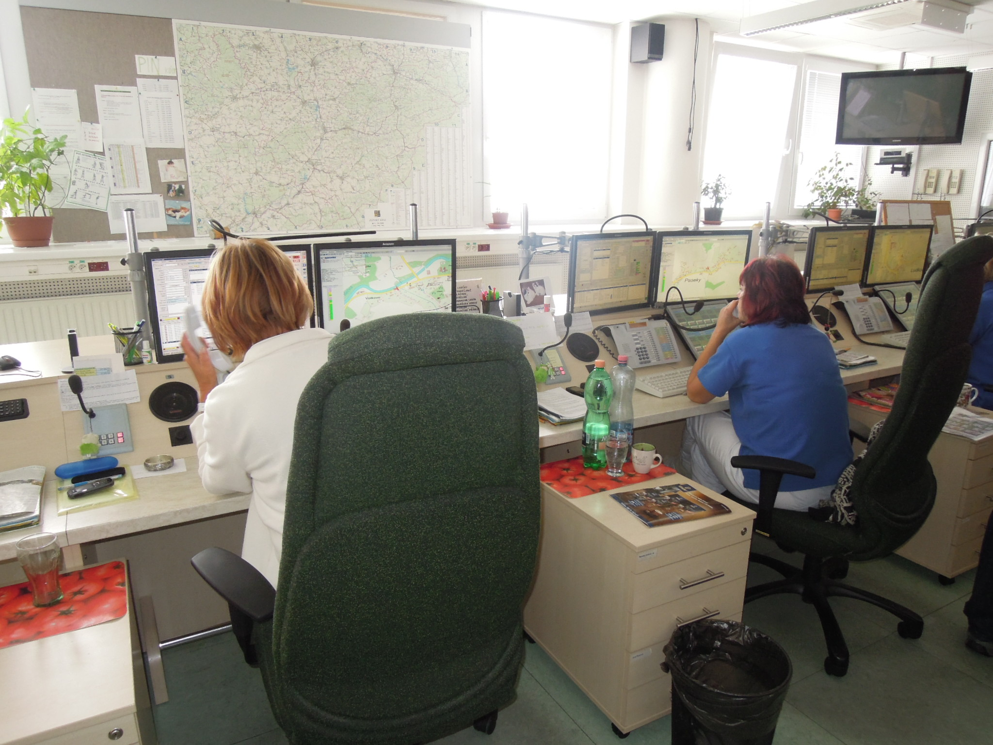 Center of emergency call 155 in Zlín, Zlín Region, Czech Republic